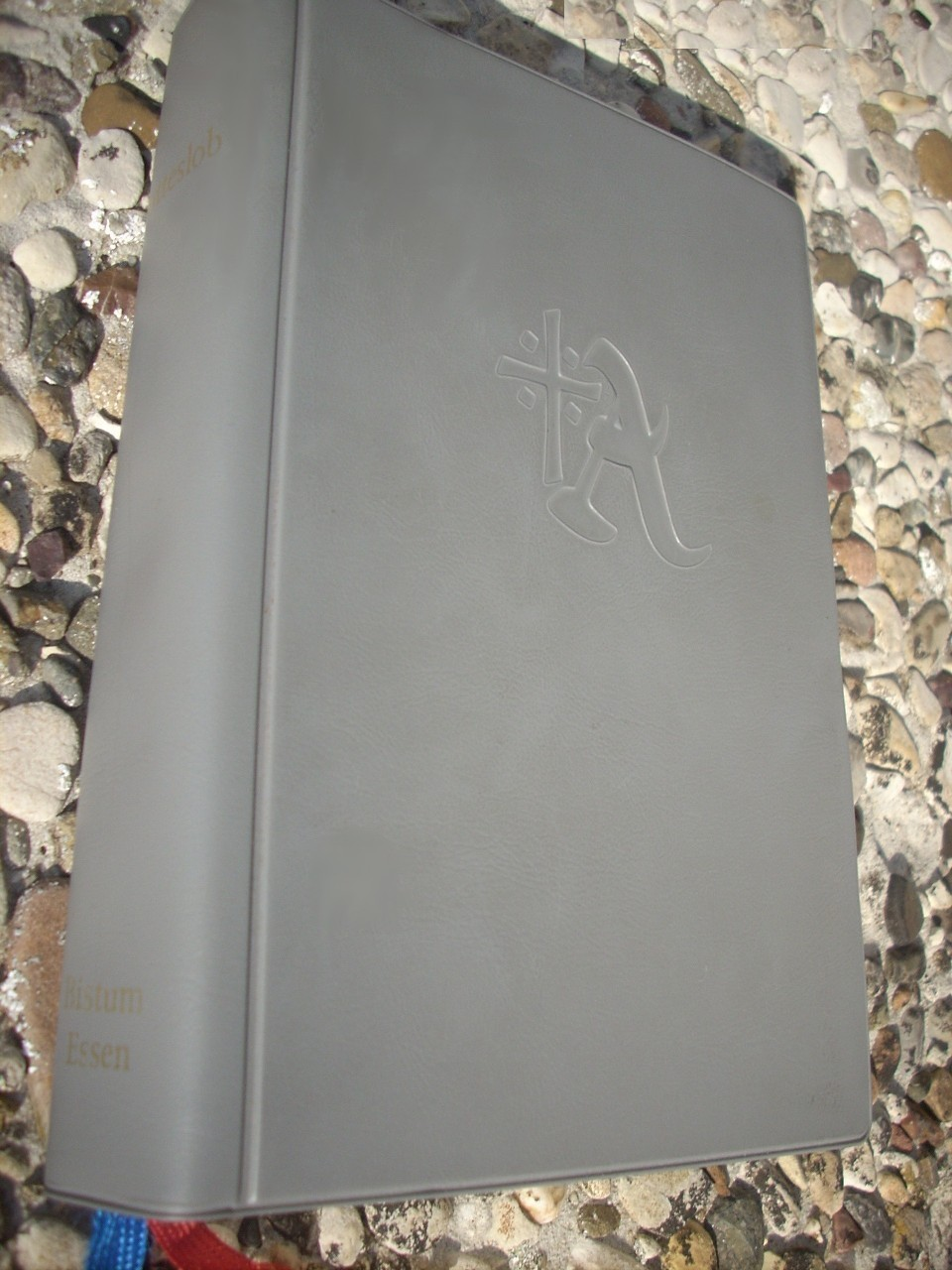 Catholic Hymnal Gotteslob, Edition Diocese of Essen, with Altfrid monogram